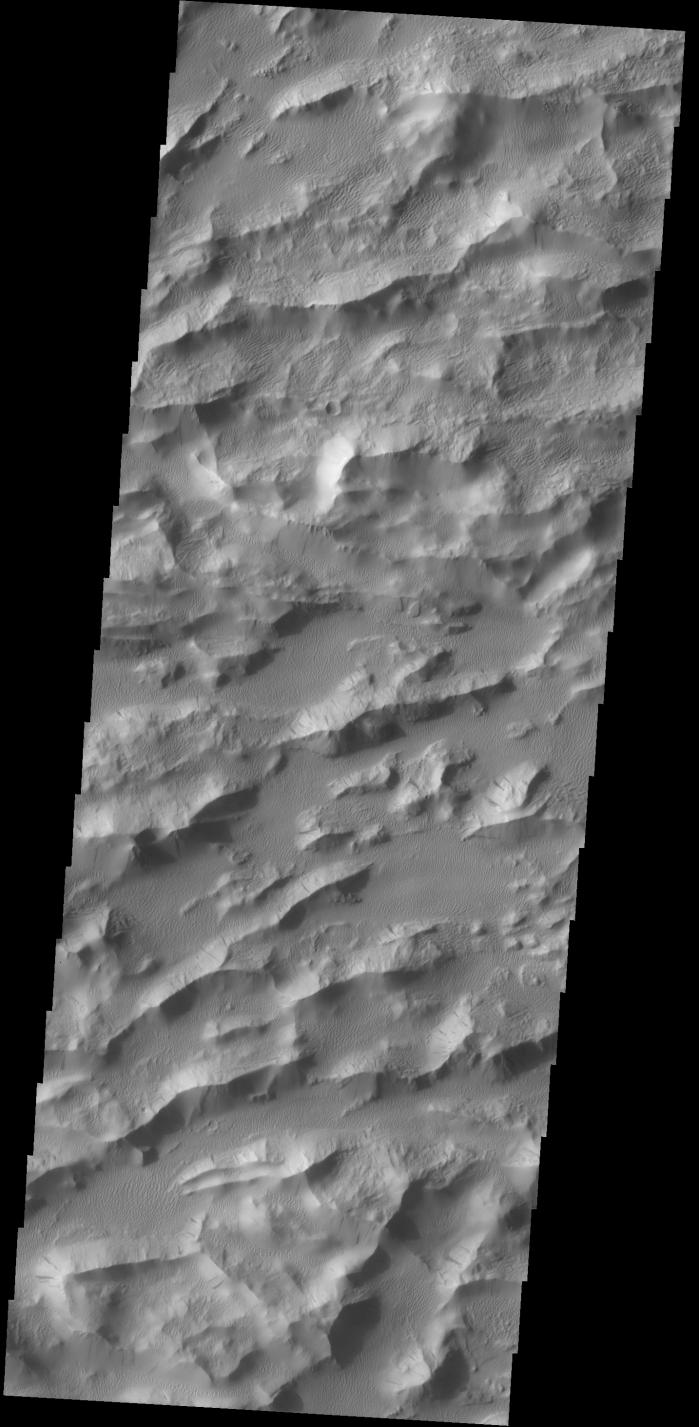 Lycus Sulci photographed by the VIS instrument aboard the 2001 Mars Odyssey spacecraft.